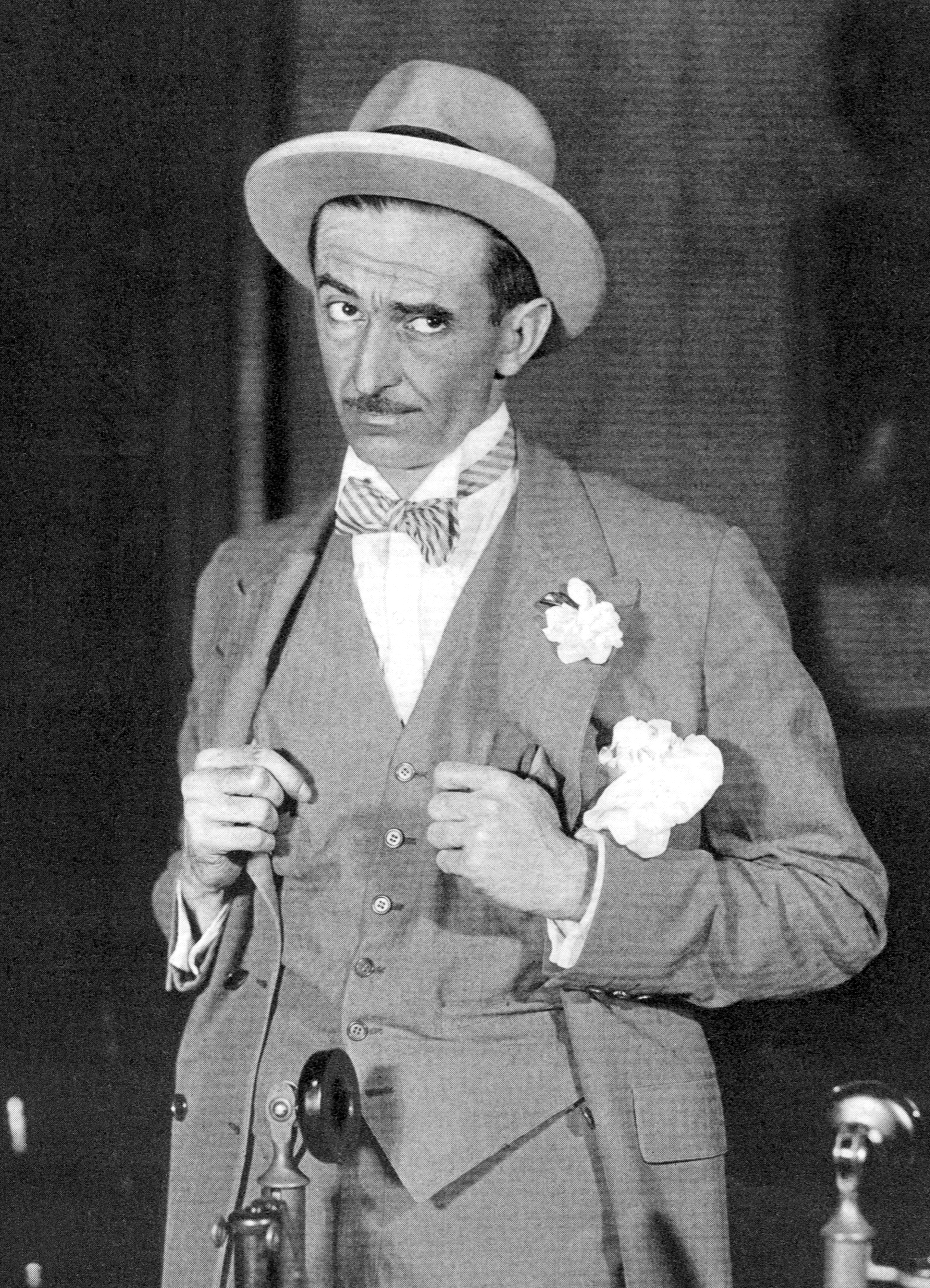 Promotional photograph of Osgood Perkins as Walter Burns in the 1928 Broadway production of The Front Page